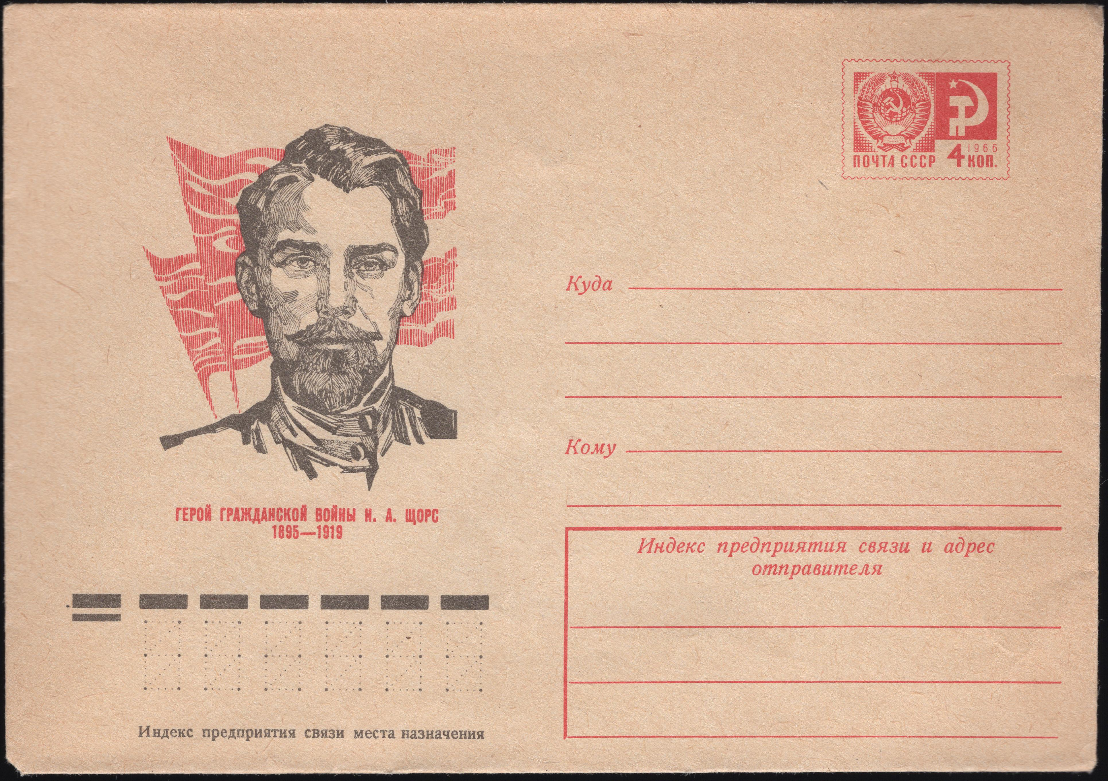 Hero of Civil War Nikolay Shchors. 1895-1919. Series: Heroes of Civil War. Artist Peter Bendel.